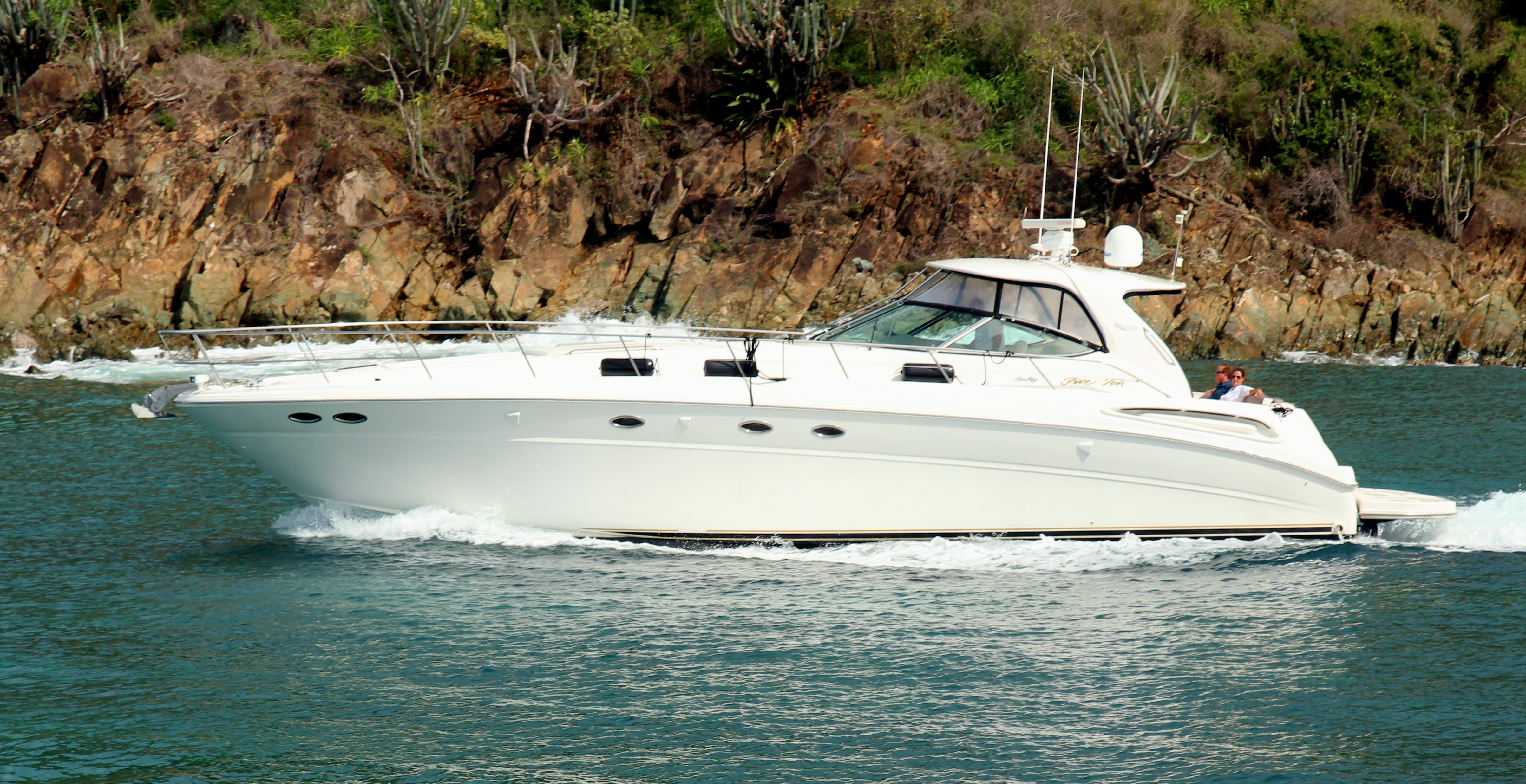 Cruz Bay ~ St. John U.S. Virgin Island